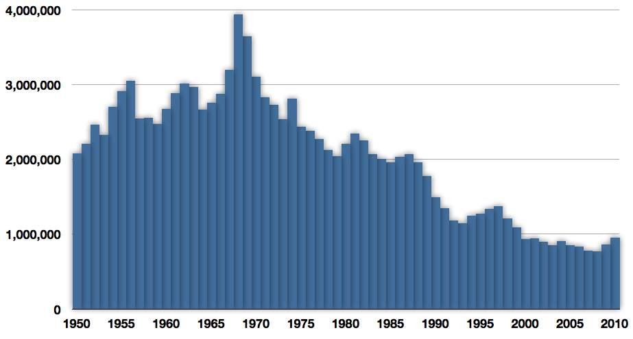 Global fisheries capture in tonnes of the Atlantic cod, Gadus morhua, from 1950 to 2010 as reported by the FAO. Data source FAO fisheries